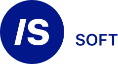 Official logo of ISsoft Solutions